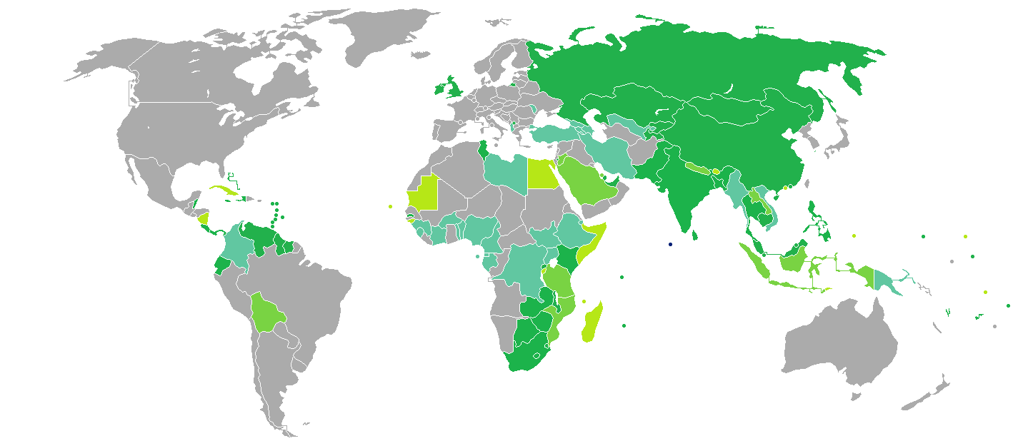 Visa requirements for Maldivian citizens holding ordinary passports Maldives Visa free access Visa on arrival eVisa Visa available both on arrival or online Visa required